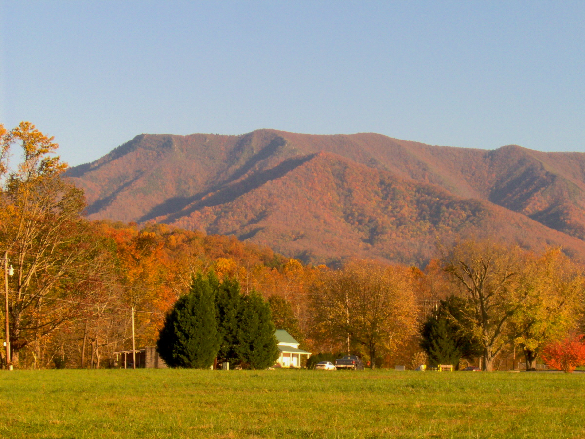 Mount Cammerer in the Great Smoky Mountains, looking south from Cosby, Tennessee. The elevation of Cammerer is 4,928 feet/1,502 meters.